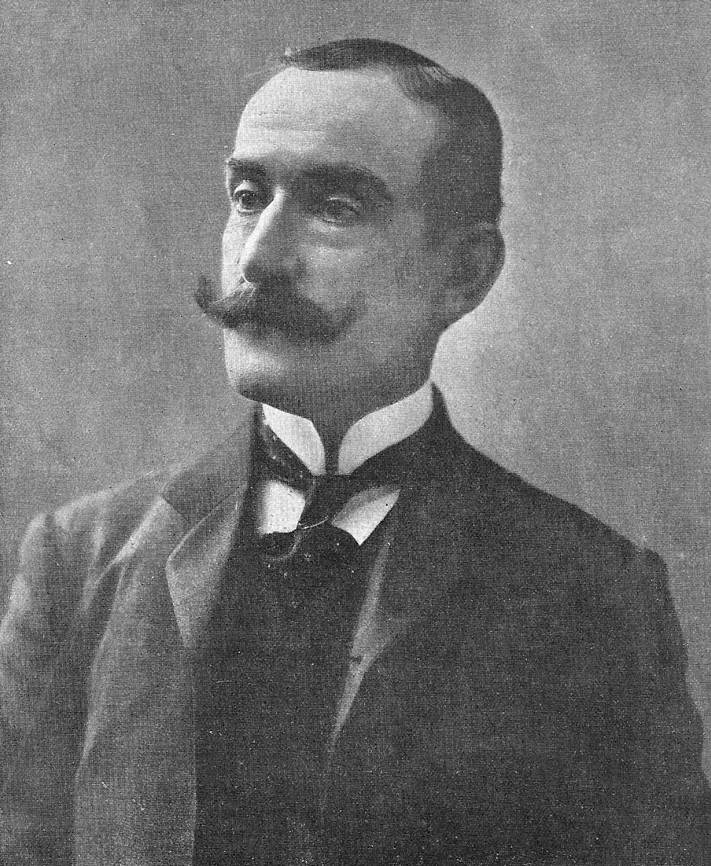 Chief of Federal Police of Argentina, Ramón L. Falcón, portrayed on the cover of Caras y Caretas.